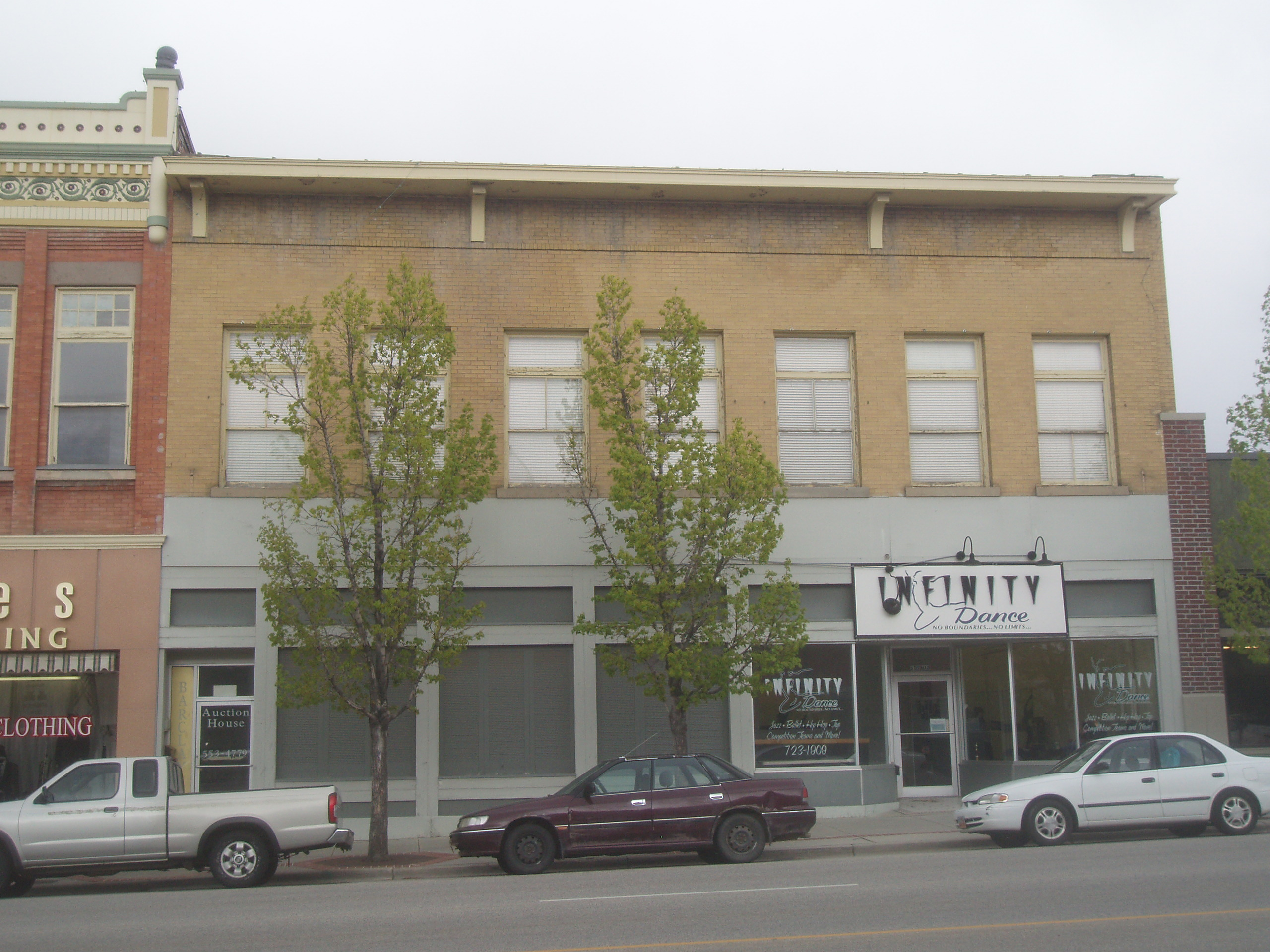 The Knudson Brothers Building, a historic building in Brigham City, Utah, United States.